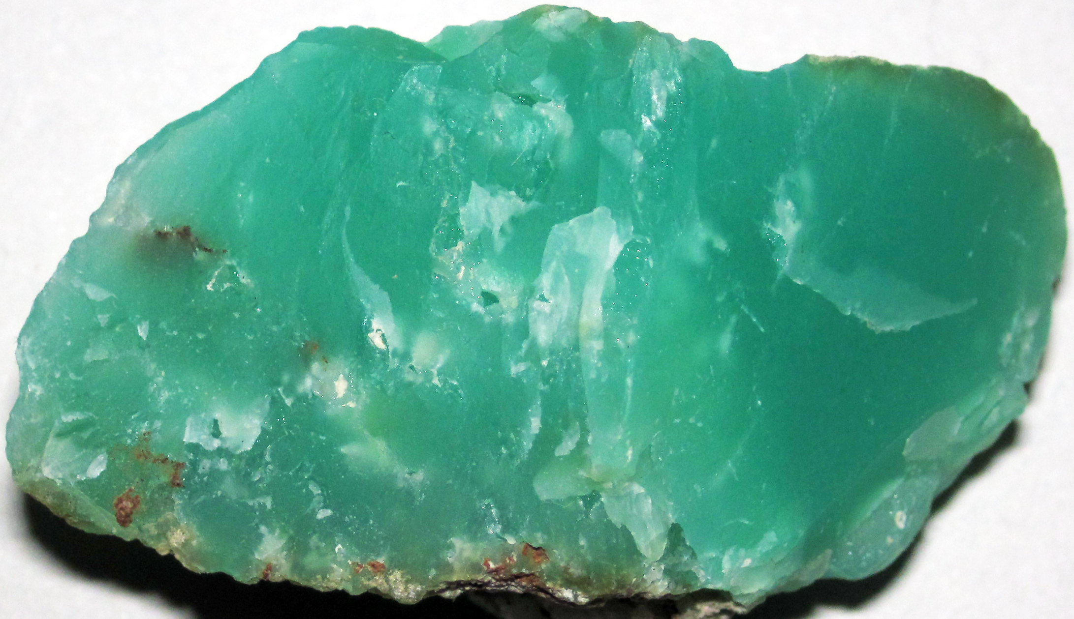 A mineral is a naturally-occurring, solid, inorganic, crystalline substance having a fairly definite chemical composition and having fairly definite physical properties. At its simplest, a mineral is a naturally-occurring solid chemical. Currently, there are over 5400 named and described minerals - about 200 of them are common and about 20 of them are very common. Mineral classification is based on anion chemistry. Major categories of minerals are: elements, sulfides, oxides, halides, carbonates, sulfates, phosphates, and silicates. The silicates are the most abundant and chemically complex group of minerals. All silicates have silica as the basis for their chemistry. "Silica" refers to SiO2 chemistry. The fundamental molecular unit of silica is one small silicon atom surrounded by four large oxygen atoms in the shape of a triangular pyramid - this is the silica tetrahedron - SiO4. Each oxygen atom is shared by two silicon atoms, so only half of the four oxygens "belong" to each silicon. The resulting formula for silica is thus SiO2, not SiO4. The simplest & most abundant silicate mineral in the Earth's crust is quartz (SiO2). All other silicates have silica + impurities. Many silicates have a significant percentage of aluminum (the aluminosilicates). Quartz (silicon dioxide/silica - SiO2) is the most common mineral in the Earth's crust. It is composed of the two most abundant elements in the crust - oxygen and silicon. It has a glassy, nonmetallic luster, is commonly clearish to whitish to grayish in color, has a white streak, is quite hard (H≡7), forms hexagonal crystals, has no cleavage, and has conchoidal fracture. Quartz can be any color: clear, white, gray, black, brown, pink, red, purple, blue, green, orange, etc. Chrysoprase is an apple-green, microcrystalline variety of quartz. The green color has been attributed to nickel oxide impurity. Photo gallery of quartz and chrysoprase: and